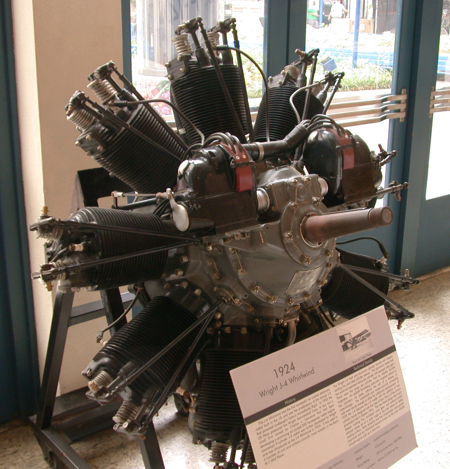 Wright J-4 Whirlwind radial, San Diego Aerospace Museum, California